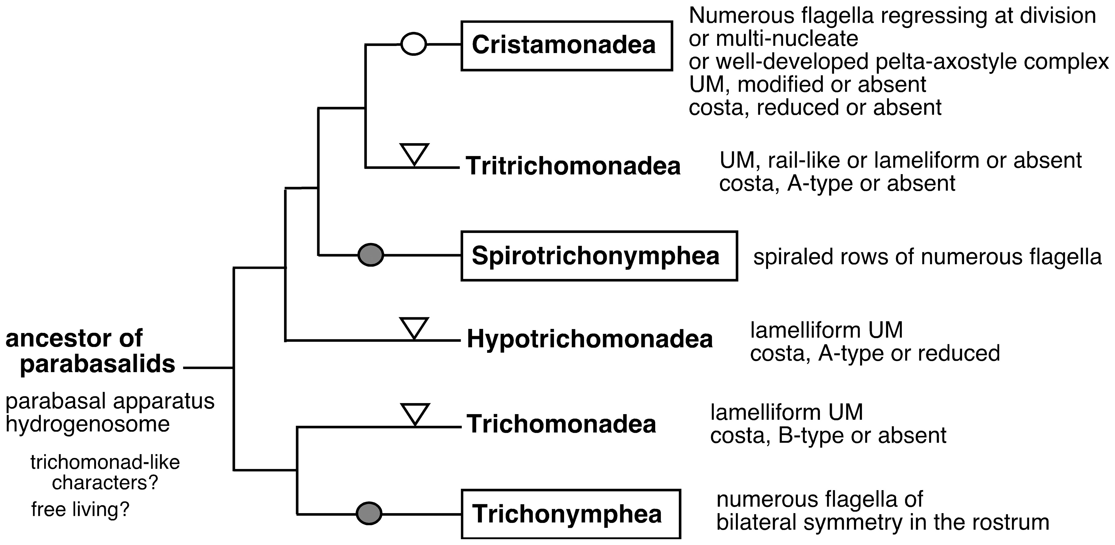 Proposed evolutionary relationships of parabasalids. The tree shows the relationships of the six parabasalian classes. Flagellar multiplication in a single mastigont system has occurred independently in the boxed classes. The multiplications have occurred ancestrally in two classes (marked with filled circles) and probably twice within the other class (open circle). Triangles indicate the occurrence of cytoskeletal simplification in undulating membrane (UM) and costa.